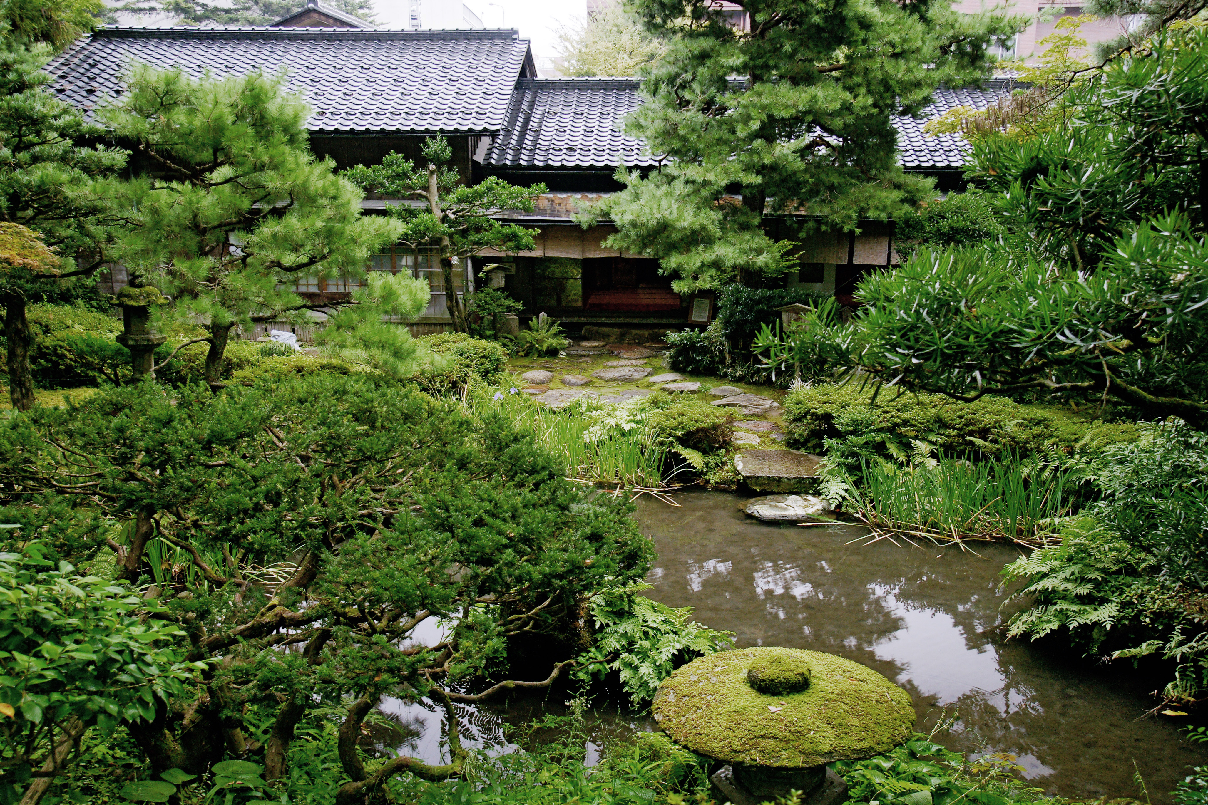 Gyokusenen in Kanazawa, Ishikawa prefecture, Japan